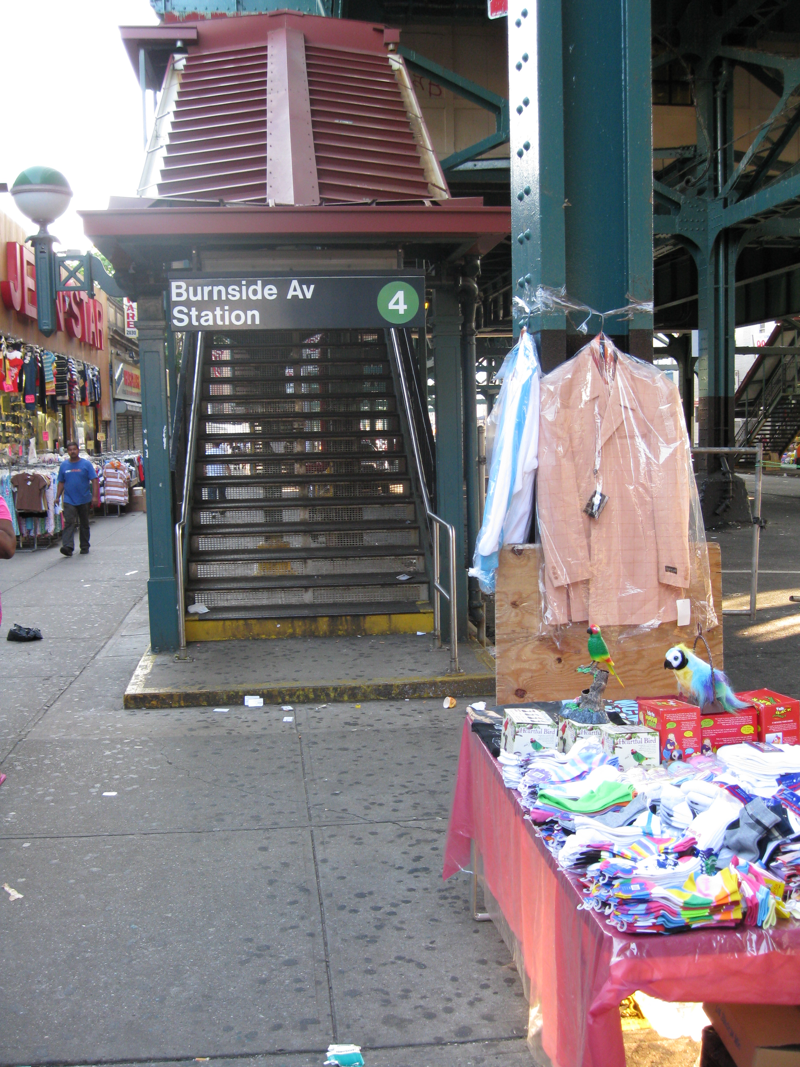 One of the entrances to the Burnside Avenue station (on the 4 train on Jerome Avenue) of the MTA New York City subway in the Bronx.